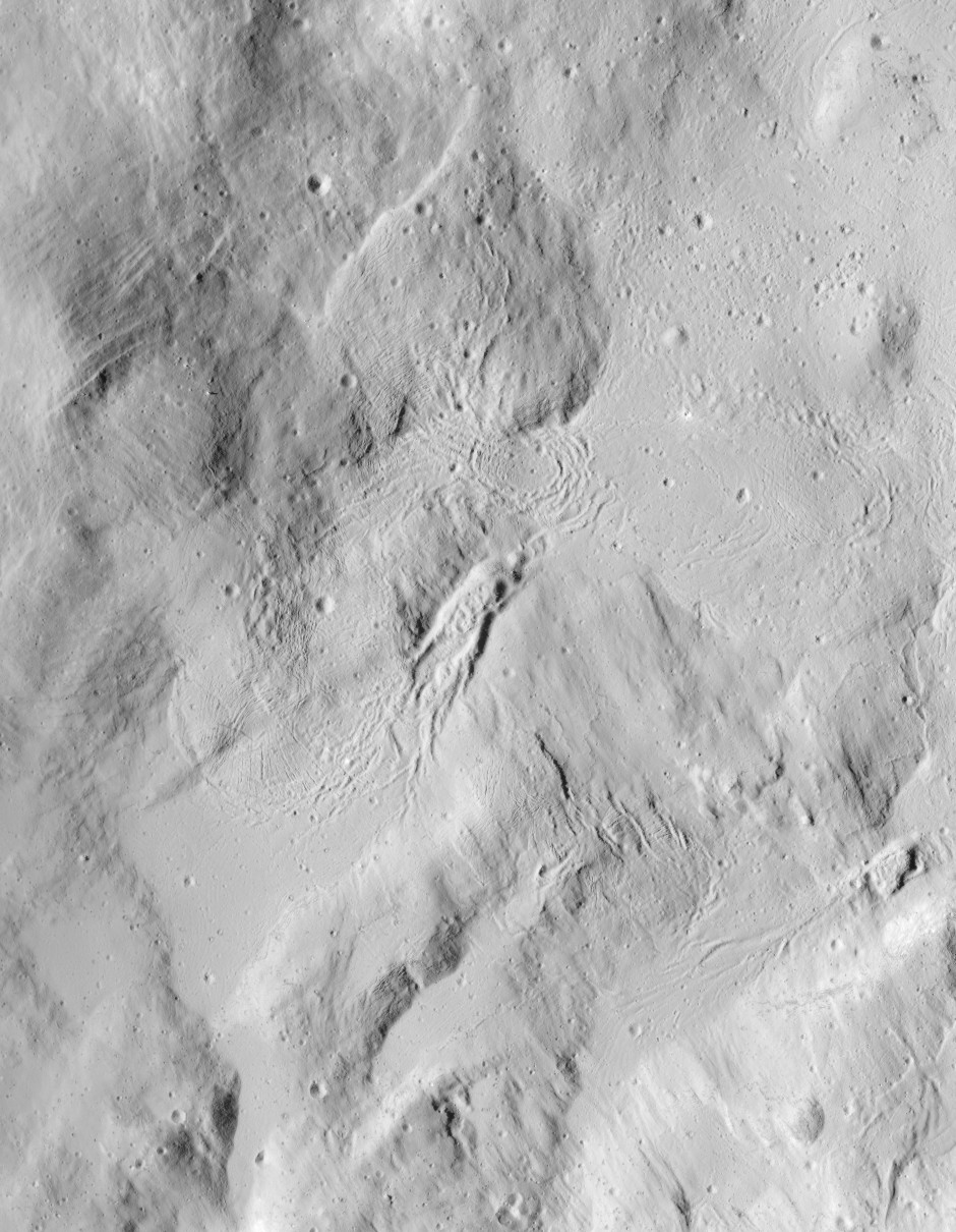 Impact melt features near King, on the moon. Approximate north at top. Figure 3.36 of The Geologic History of the Moon (see source). The caption of this image is as follows: Lineations and festoons indicating flow of impact melt in exterior pool of crater King (fig. 3.23A). Melt has flowed over rim material and collected in depressions (Howard and Wilshire, 1975).